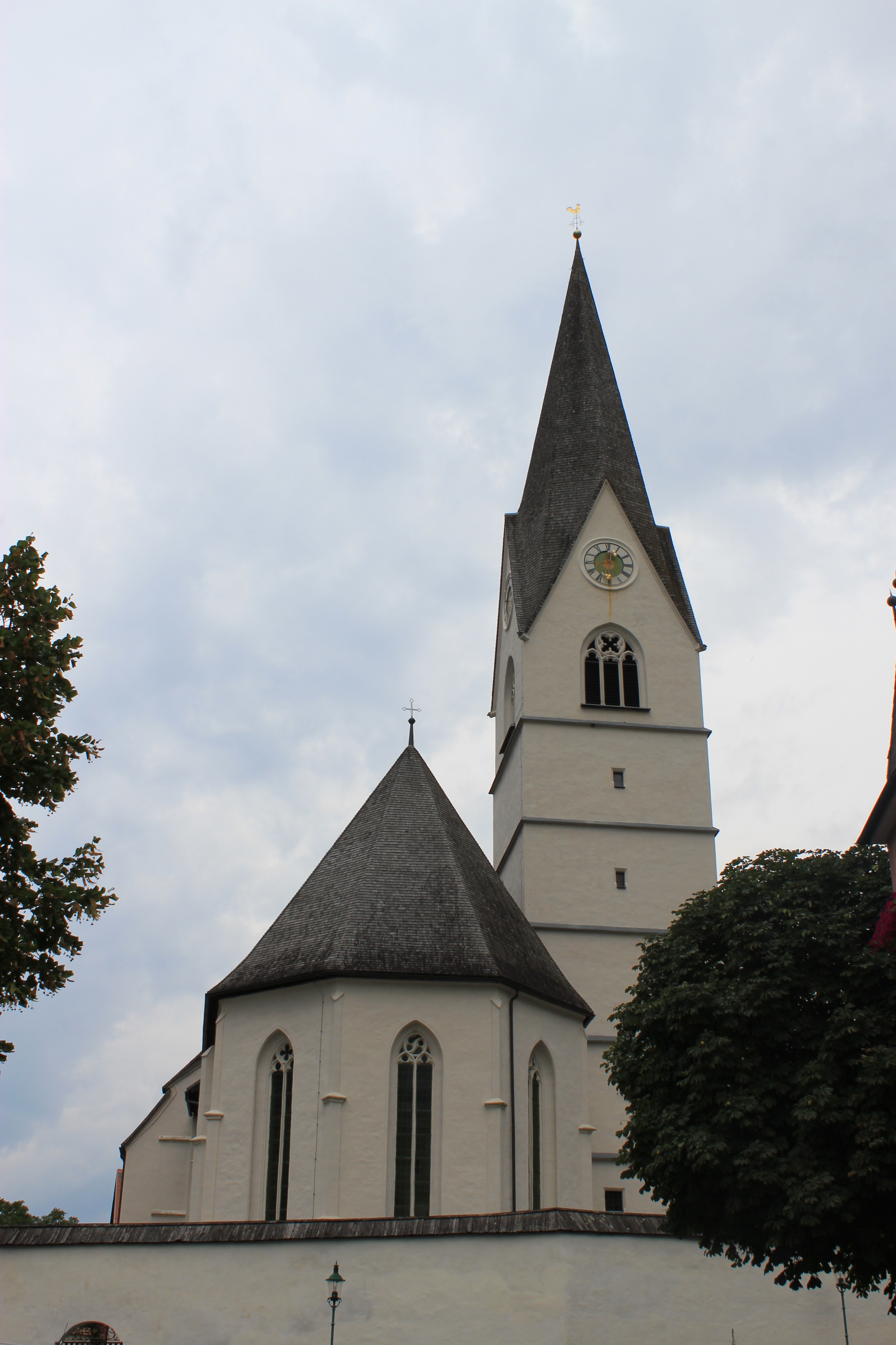 Parish church in Obervellach